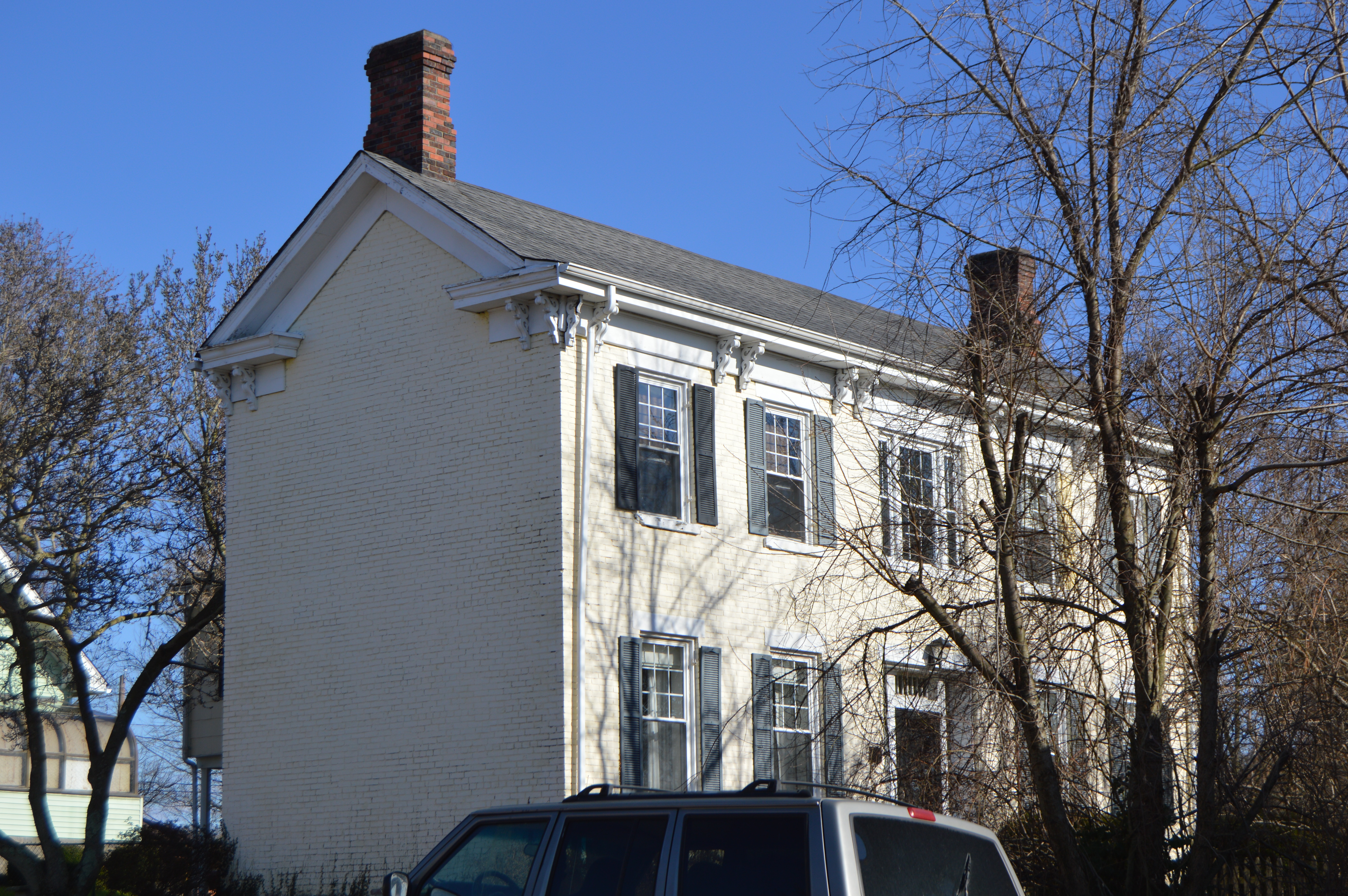 Front and northern side of the Bushrod Washington Price House, located at 1803 Virginia Street in Moundsville, West Virginia, United States. Built in 1830, it is listed on the National Register of Historic Places.